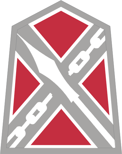 Virginia STARC SSI from [1]